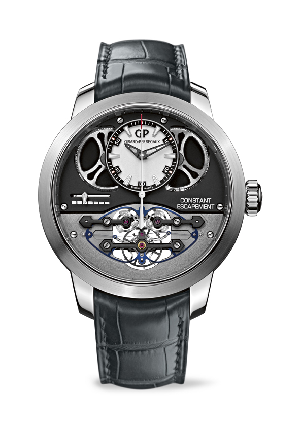 In 2013, Girard-Perregaux presented its Constant Escapement, an answer to the waning power in traditional mechanical watches.